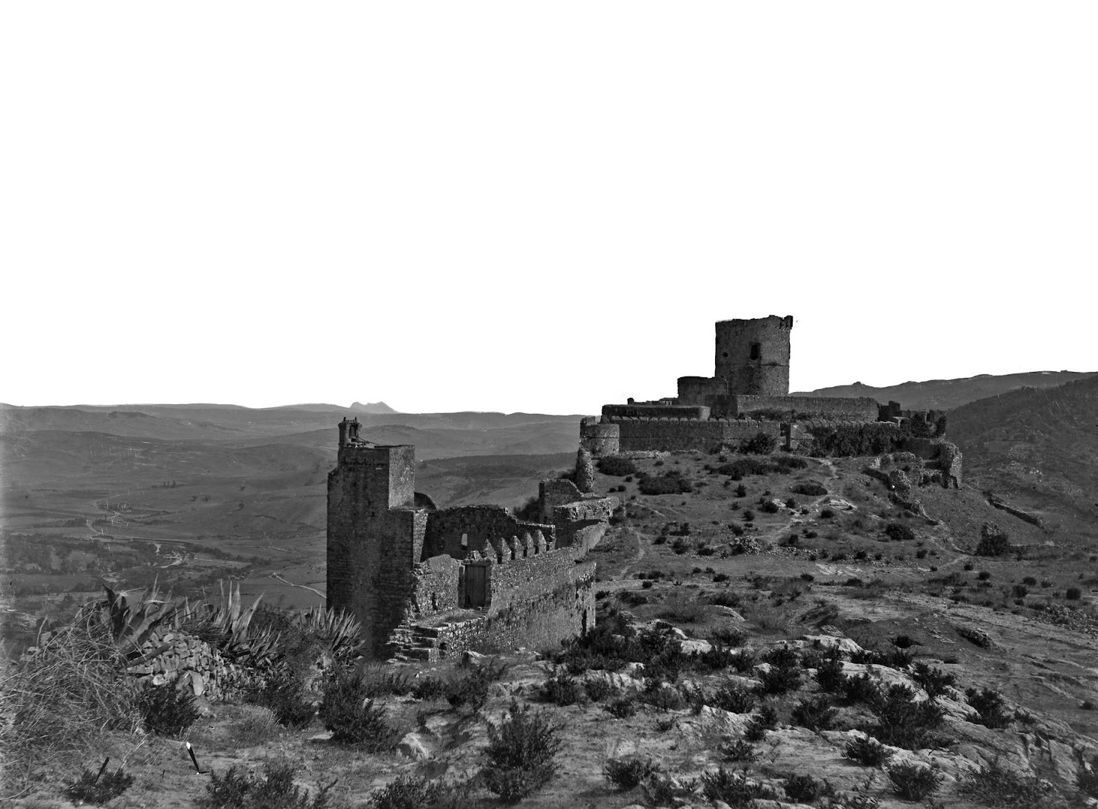 Castle of Jimena Photograph by George Washington Wilson taken in the 1870-1890s in Campo de Gibraltar in Southern Spain just north of Gibraltar. Pictures found by Neville Chipolina